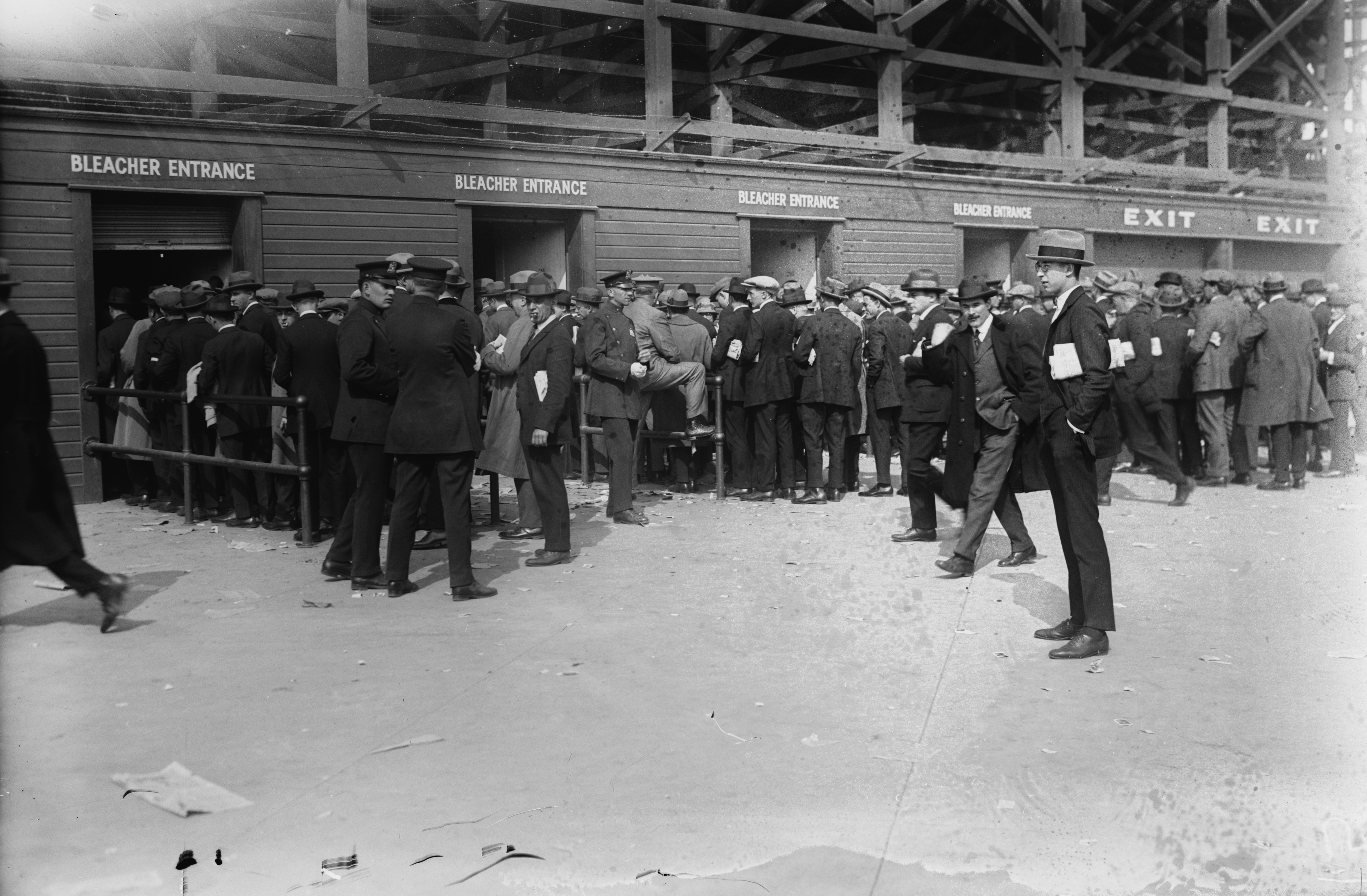 Fans lined up for World Series Game 1 bleacher seats at Yankee Stadium - October 10, 1923.